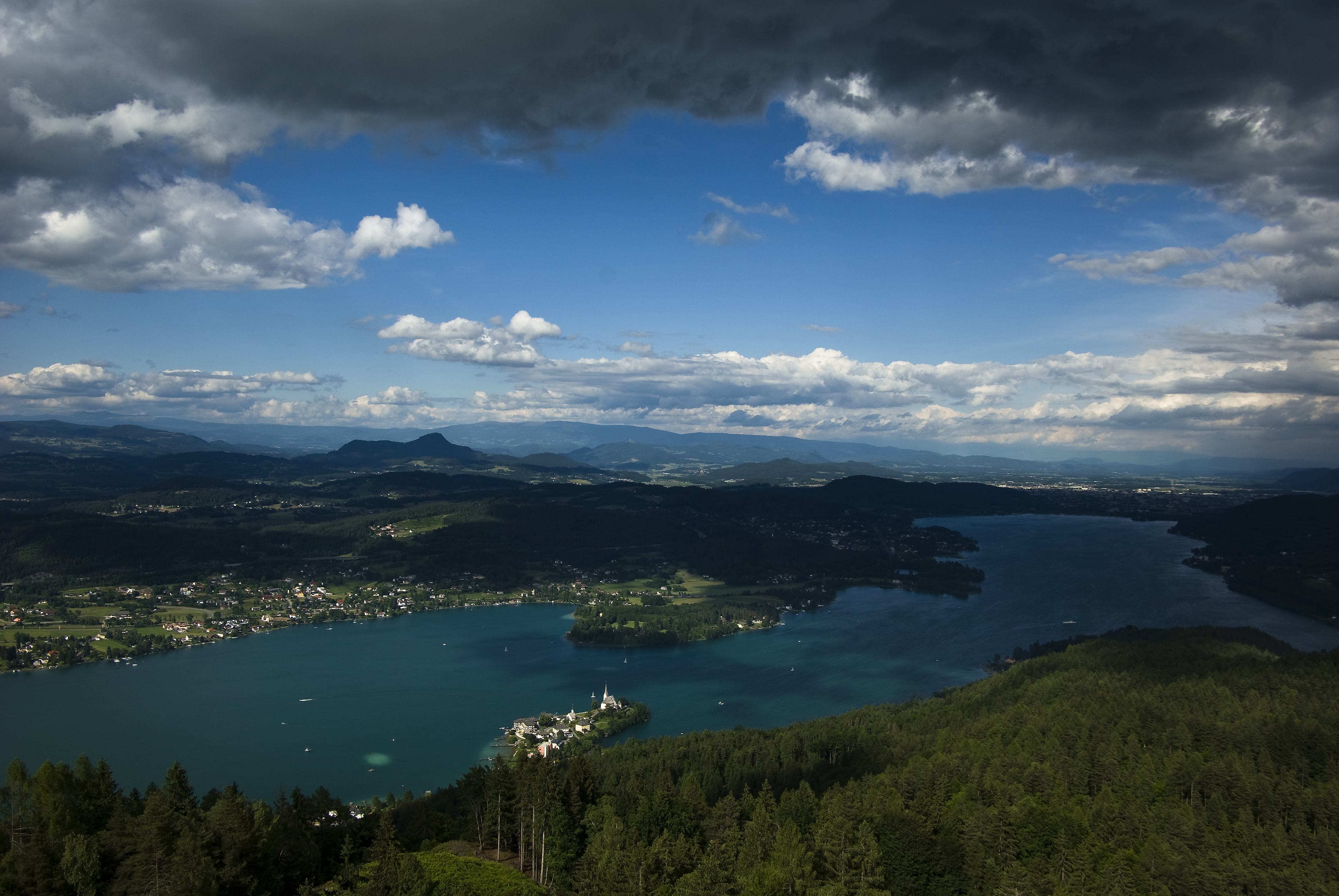 wörthersee view from the pyramidenkugel